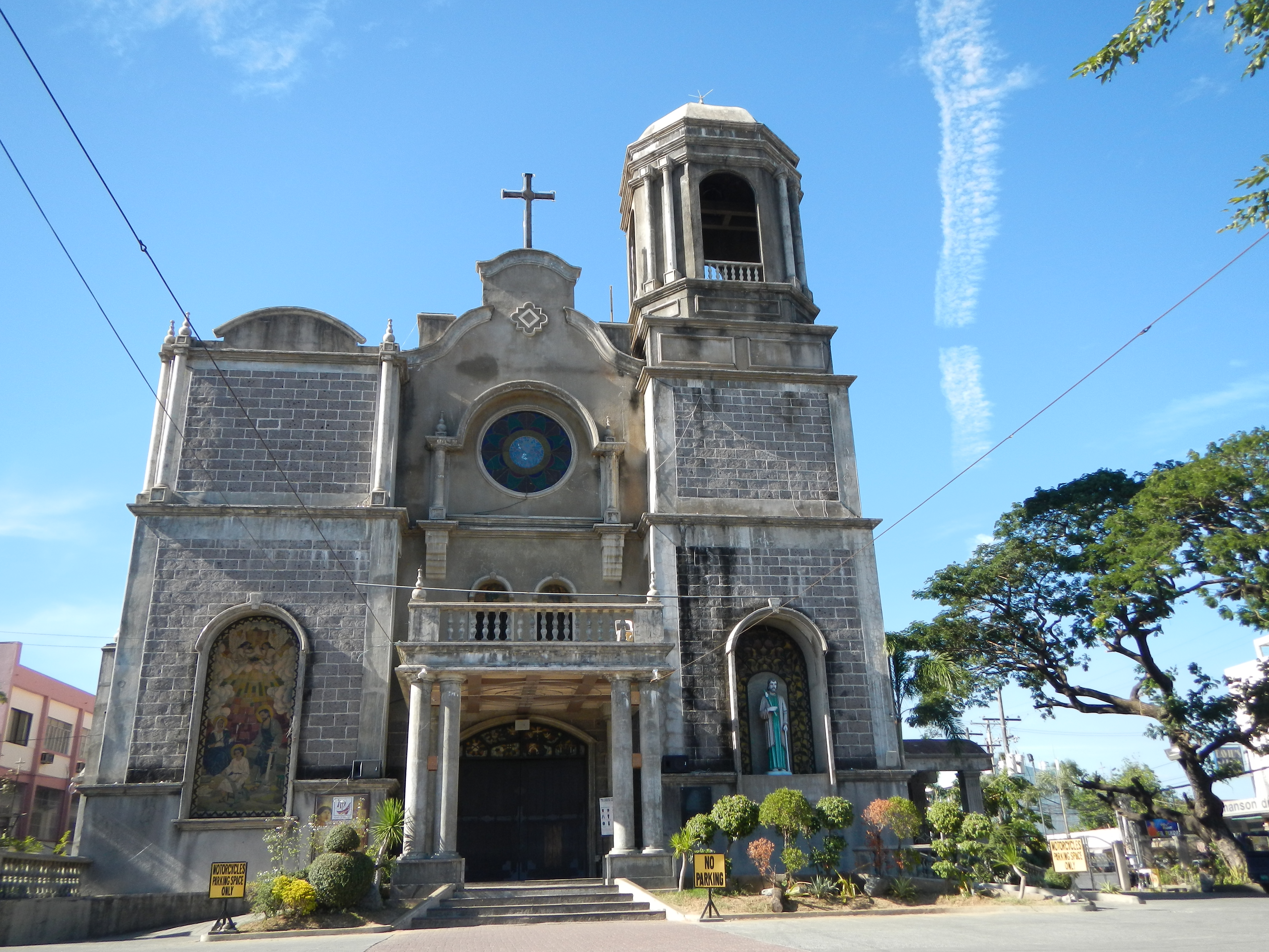 1946 Cathedral of Saint Joseph the Worker of San Jose,[1]The Roman Catholic Diocese of San Jose in the Philippines (Lat: Dioecesis Sancti Iosephi in Insulis Philippinis) is an ecclesiastical territory or diocese of the Latin Rite of the Roman Catholic Church in the Philippines.[2]Vicariate of St. Joseph Titular:Saint Joseph the Worker Current Parish Priest: Father Cesar C. Vergara, assisted by Fr. Remigio "Baby" Malga and Fr. Jun Flores, San Jose City, 3121 Nueva Ecija, Philippines Population: 108,155 Catholics: 0.85%[3] Bishop Robert Callara Mallari, DD[4]May 15, 2012[5][6][7][8][9][10]Solemnly blessed and decicated on March 20, 2006.[11]